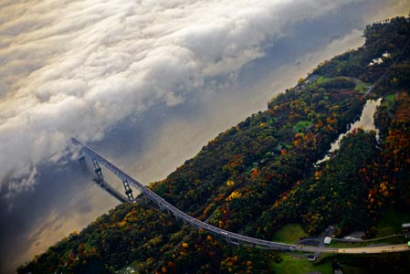 kingston rhinecliff bridge with fog creeping west over the hudson